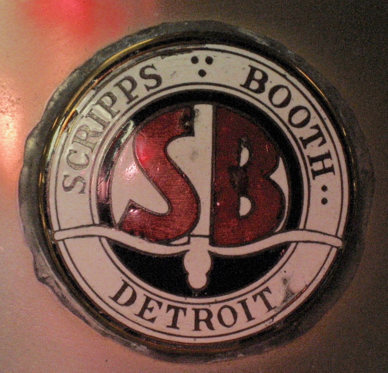 Detail showing marque on front of radiator of 1916 Scripps-Booth Model "C" Roadster automobile on display at Tallahassee Automobile Museum. (Note: US Company out of business in 1923)